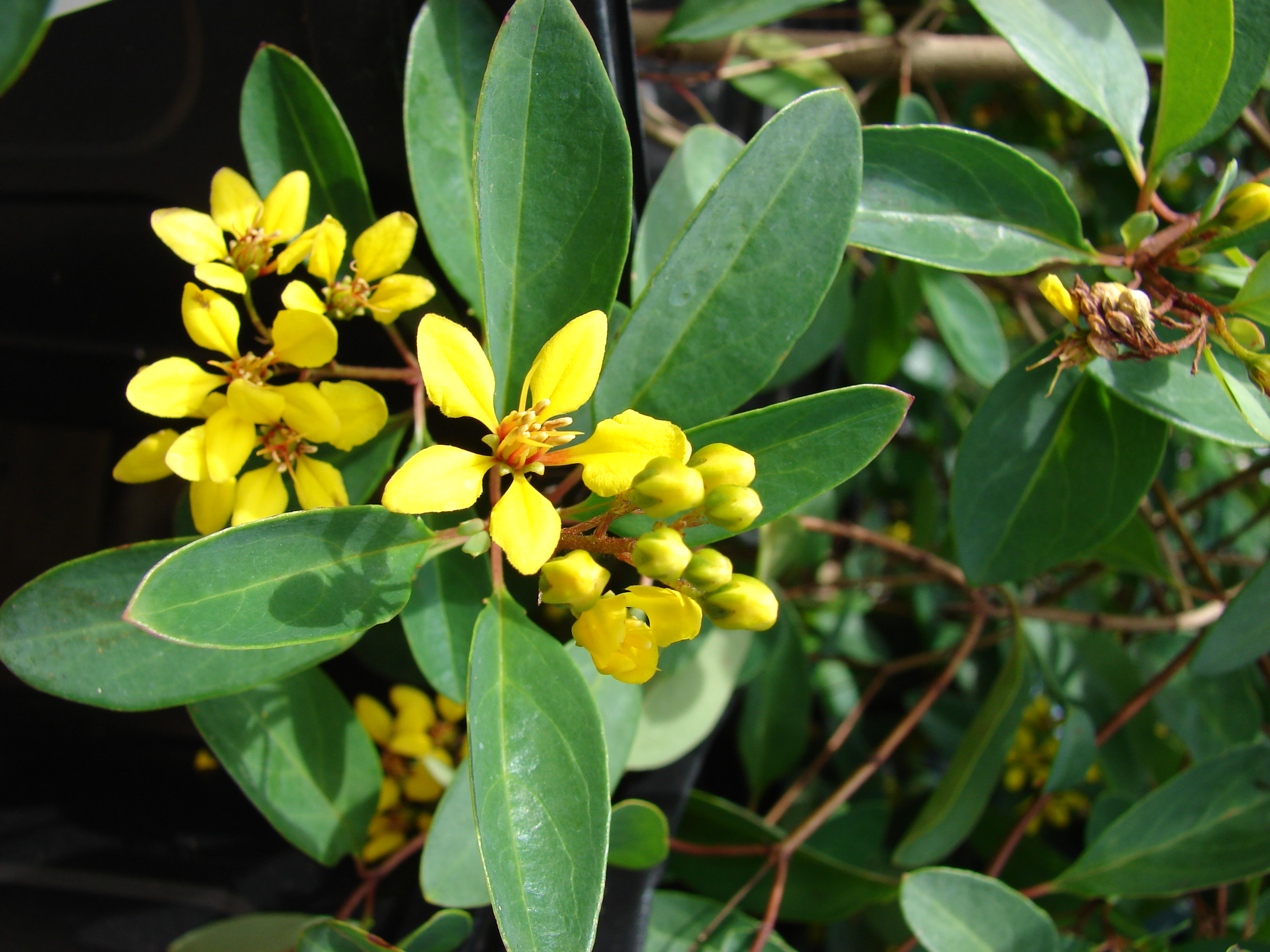 Galphimia gracilis (flowering habit). Location: Maui, Home Depot Nursery Kahului